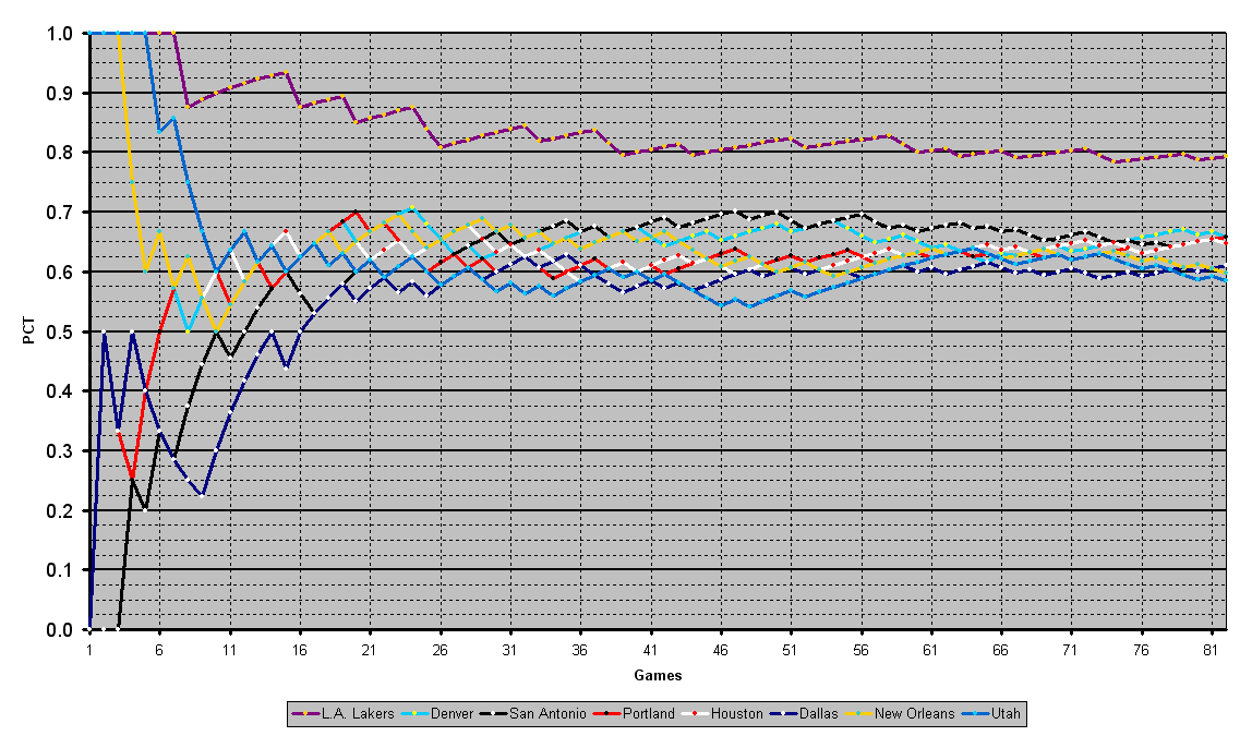 2009 NBA Playoffs qualfying, Western Conference